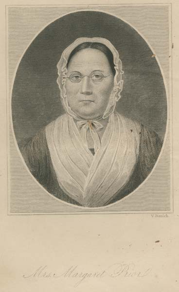 Sarah R.I. Bennett. Walks of Usefulness (New York, 1843), frontispiece. Library Company has 19th ed., 1868.